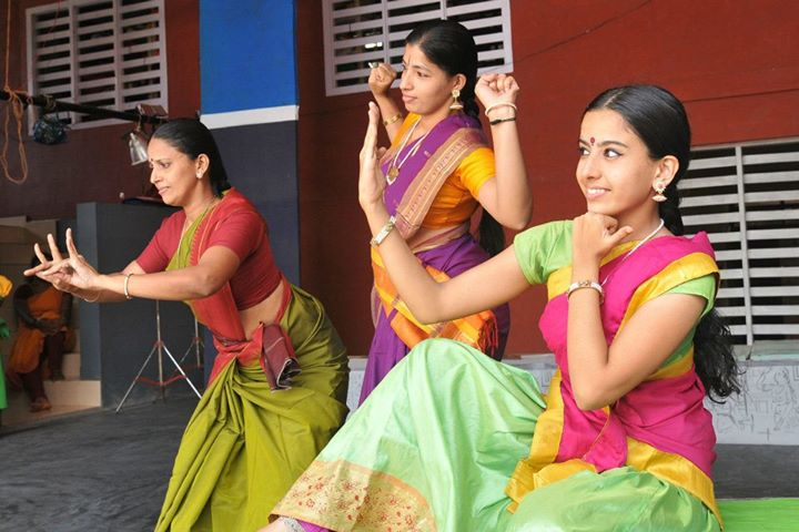 expressions